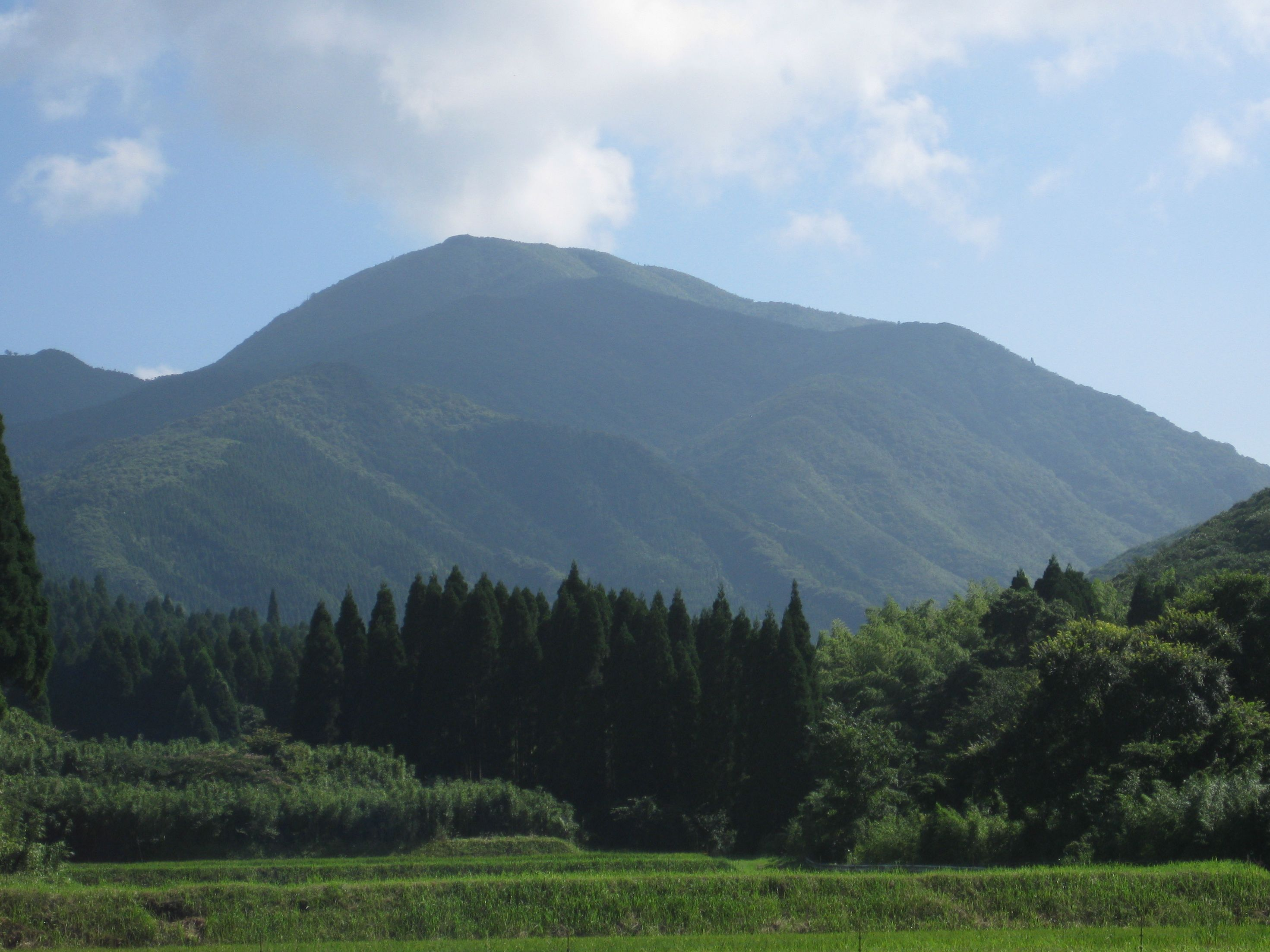 Mt. Hoyoshidake of Kagoshima, Japan